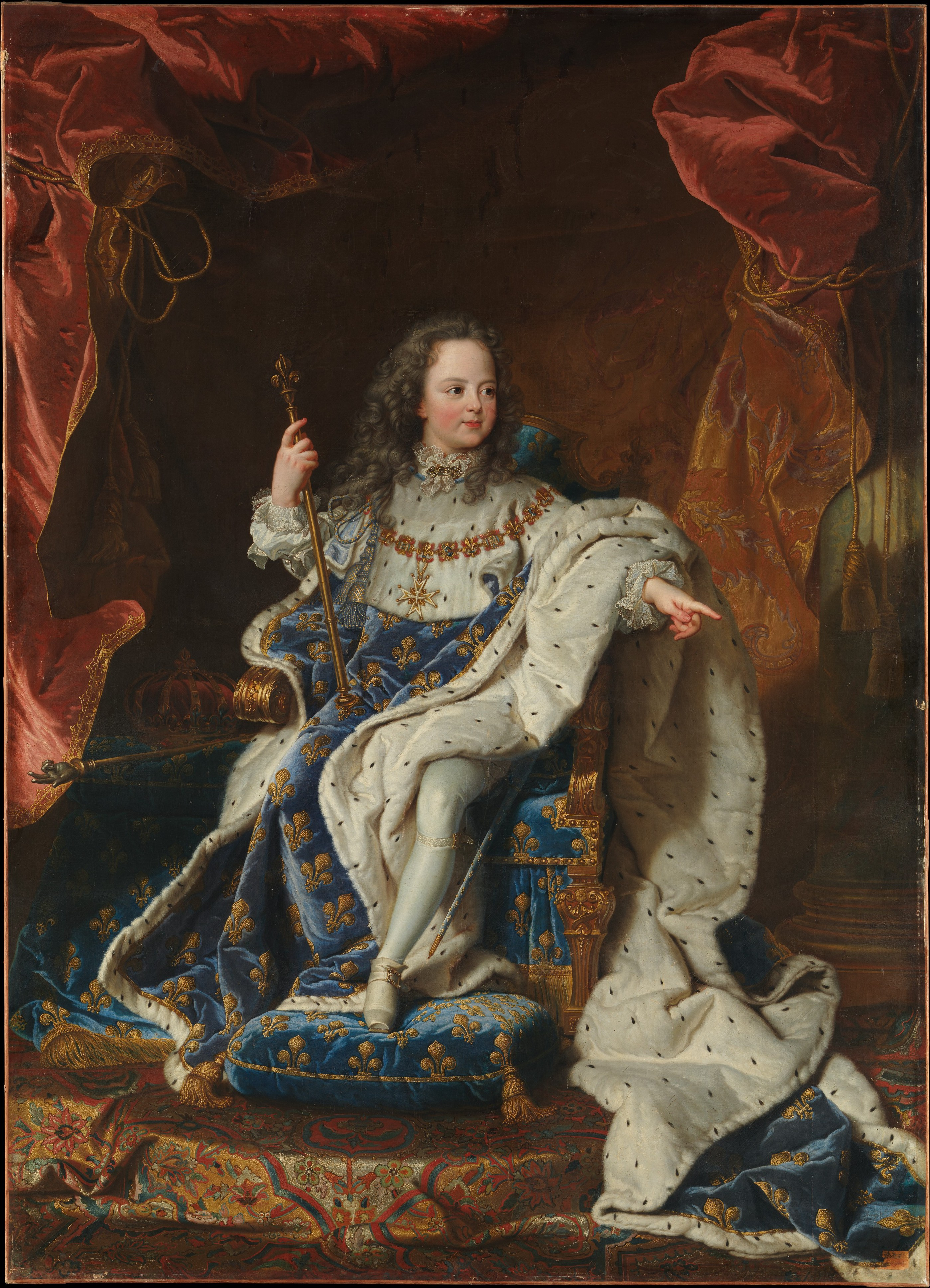 Portrait of Louis XV of France as a five-year-old King in the French coronation robes.